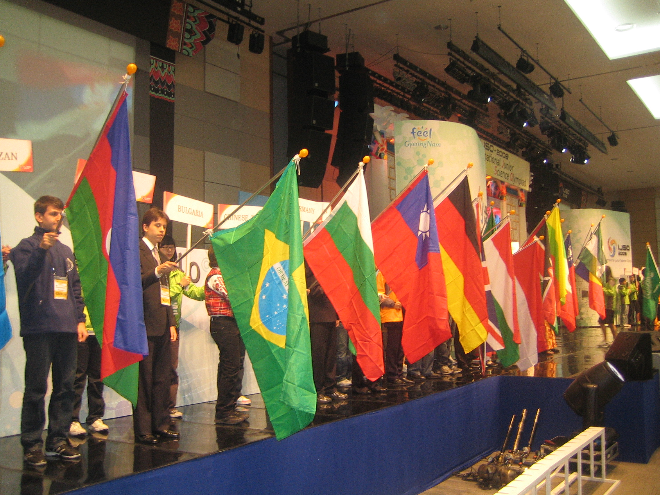 Abertura da IJSO 2008.